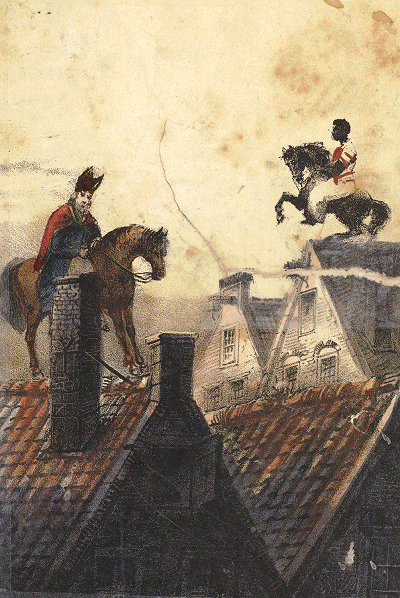 Saint Nicholas and Black Pete (1850). Sinterklaas en Zwarte Piet are on a horse on the roof of a house. The rhyme says that when you look up, you can see a man on horseback on the roof. In the text the servant 'stays' with him. llustration from: Jan Schenkman, St. Nikolaas en zijn knecht (Amsterdam, 1850). Picture with the rhyme 'St. Nikolaas op den Schoorsteen' (p. 18). Source: DBNL .